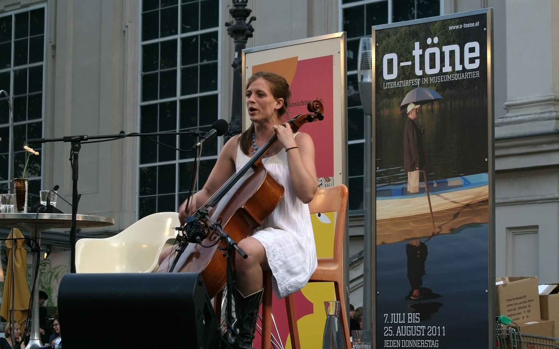 Meaghan Burke - concert at Museumsquartier at the opening of the literary festival o-töne in Vienna, Austria.